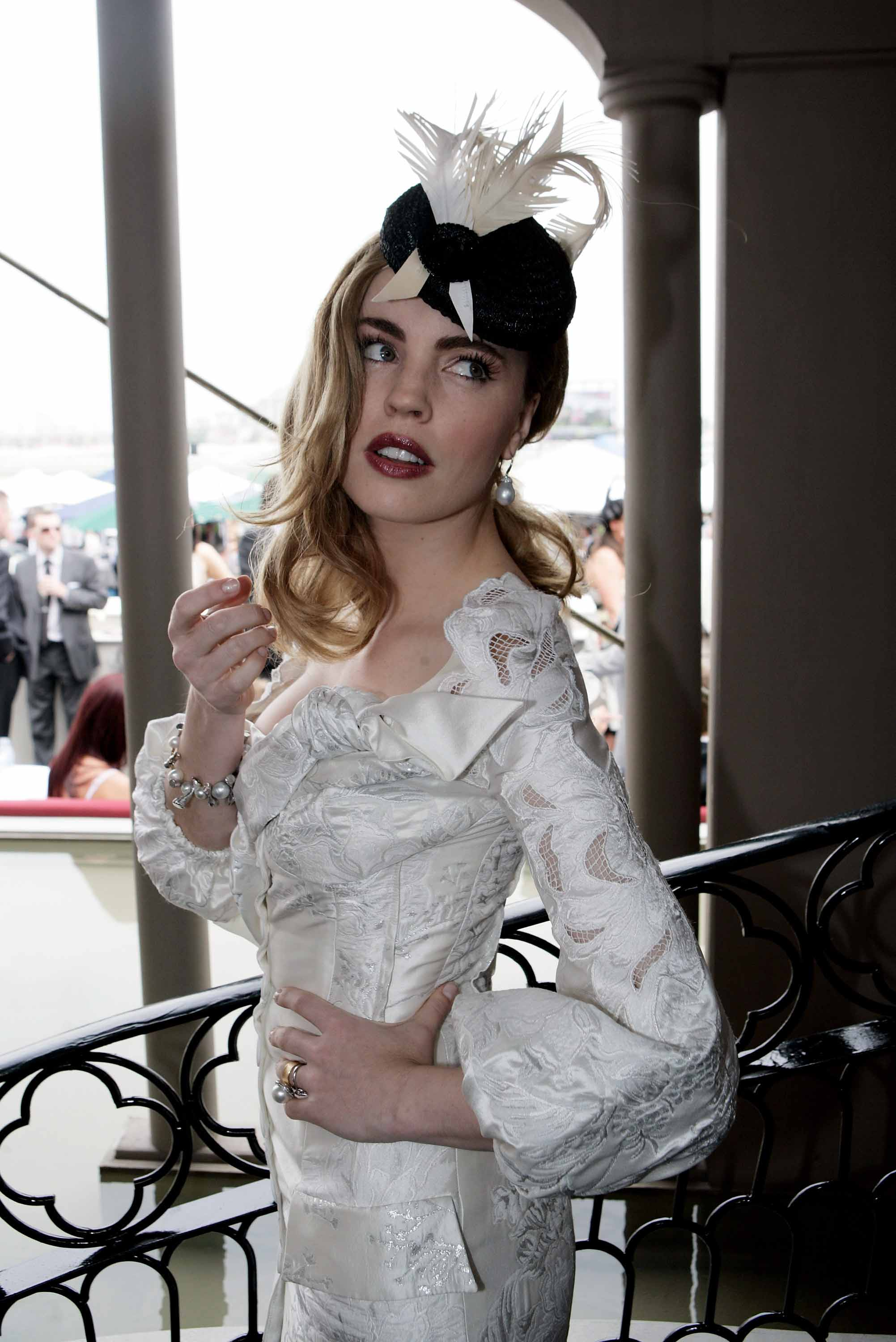 Actress Melissa George